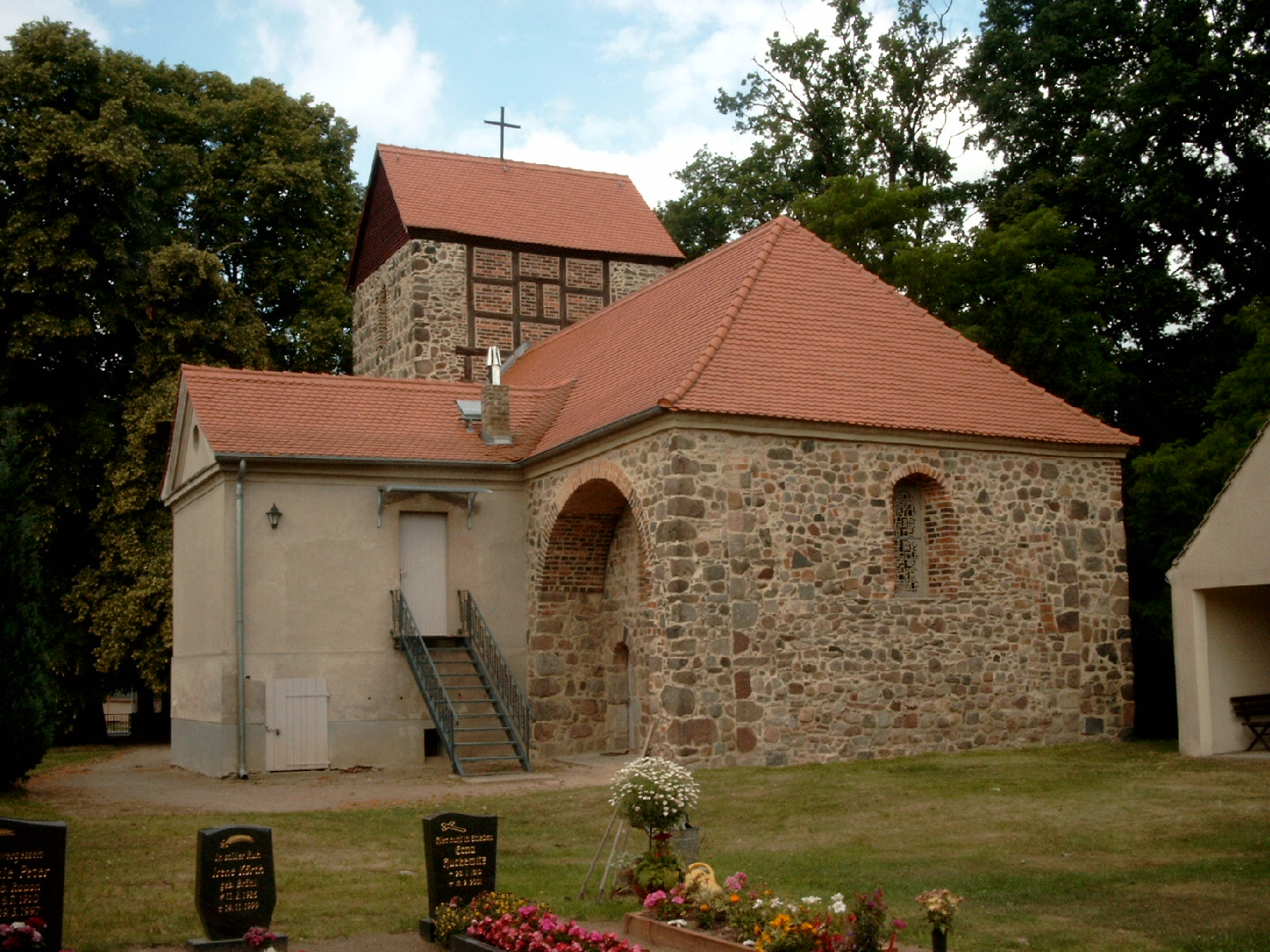 Rural church of Gräfendorf, Gem. Niederer Fläming, Lkr. Teltow-Fläming, Brandenburg, Germany, view from east